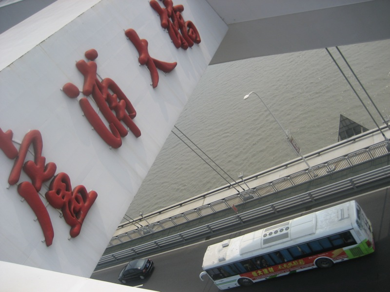 Bridge of Lupu over the Huangpu river in Shanghai (China)